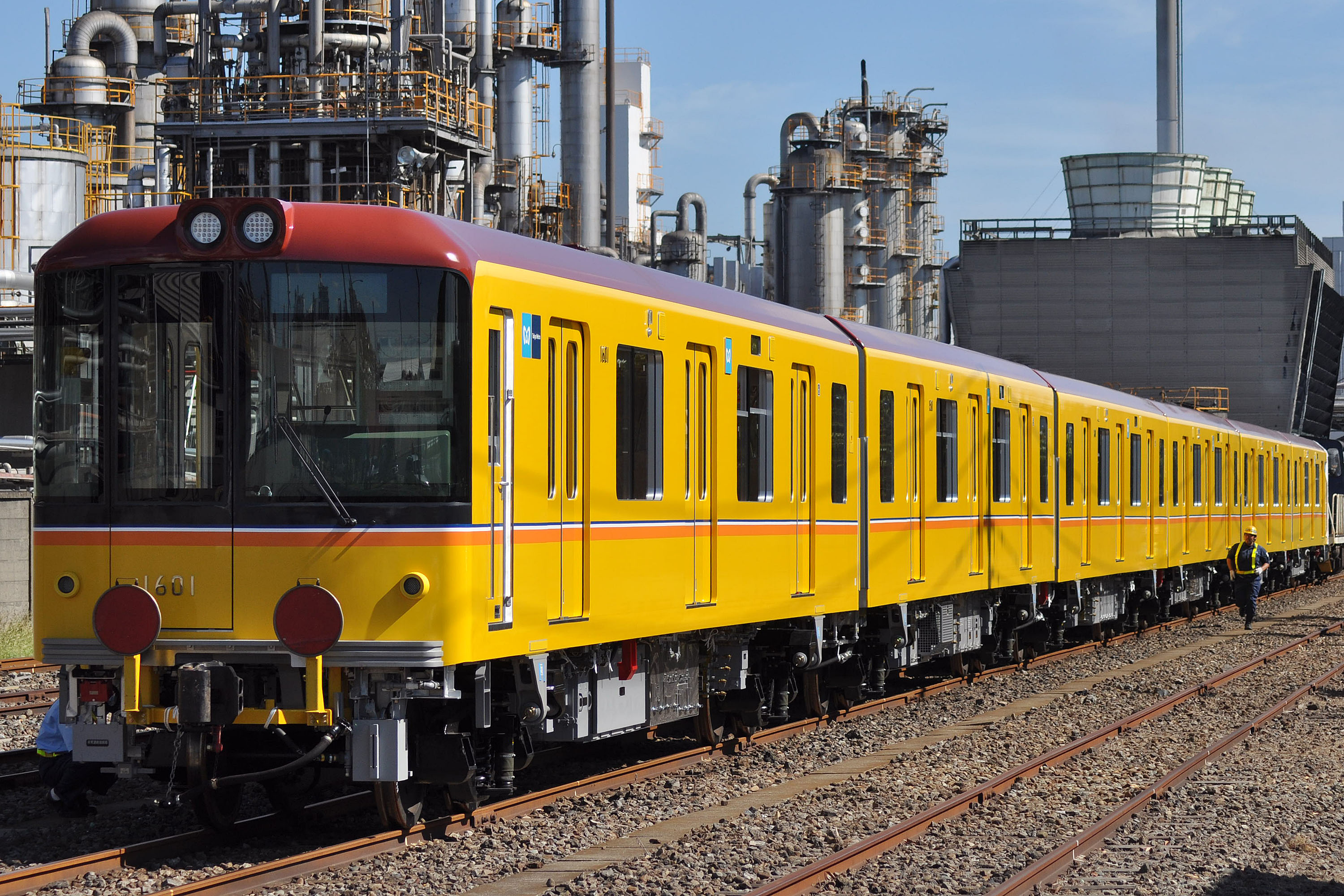 Tokyo Metro 1000 series EMU set 1101 in the Kawasaki port area on delivery from Toyokawa